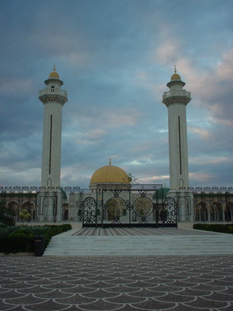 Habib Bourguiba (Arabic: حبيب بورقيبة) (born 3 August 1903 in Monastir, Tunisia â€“ died 6 April 2000) - Mausoleum in Monastir.